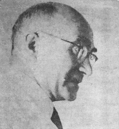 Prof. Jerzy Konorski (1903-1973)